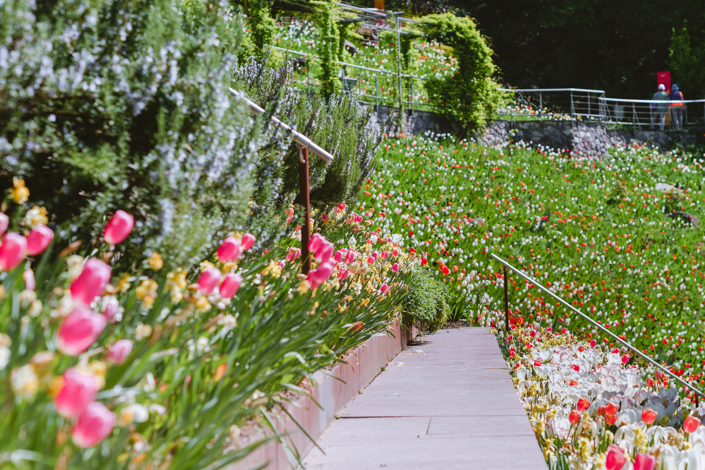 The Sungardens at the Gardens of Trauttmansdorff Castle